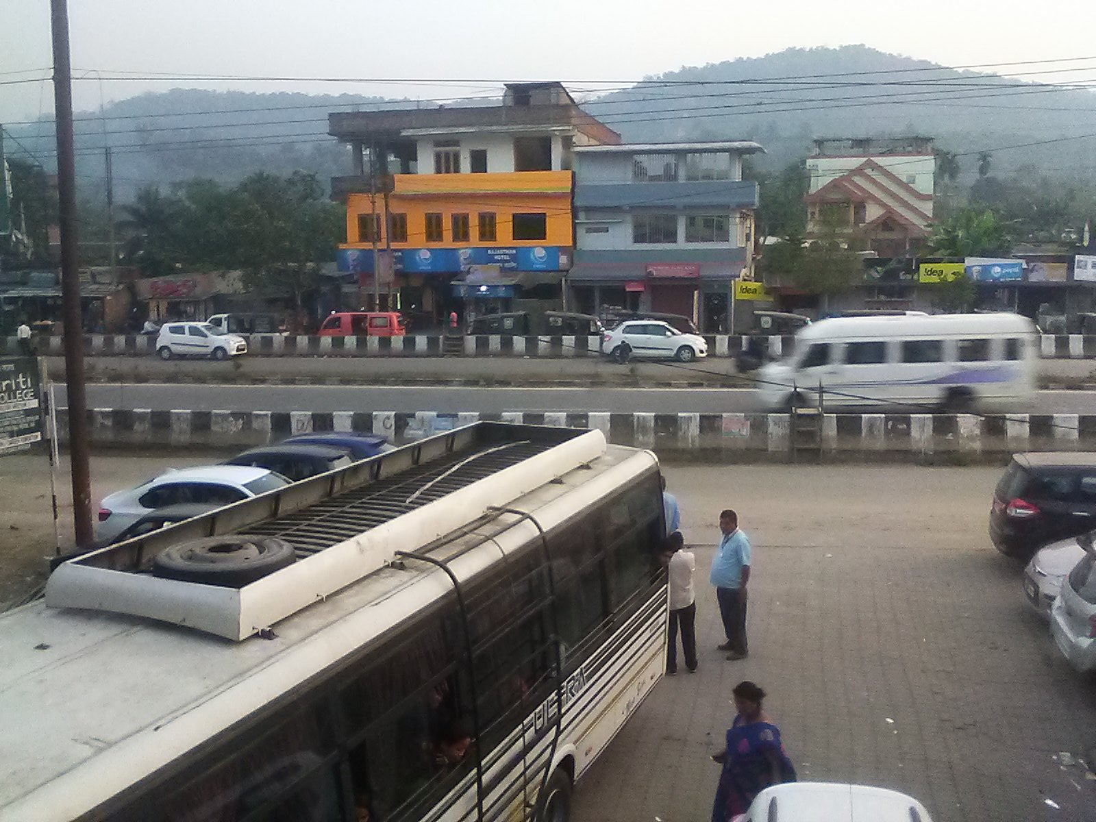 this picture is associated with jagiroad.